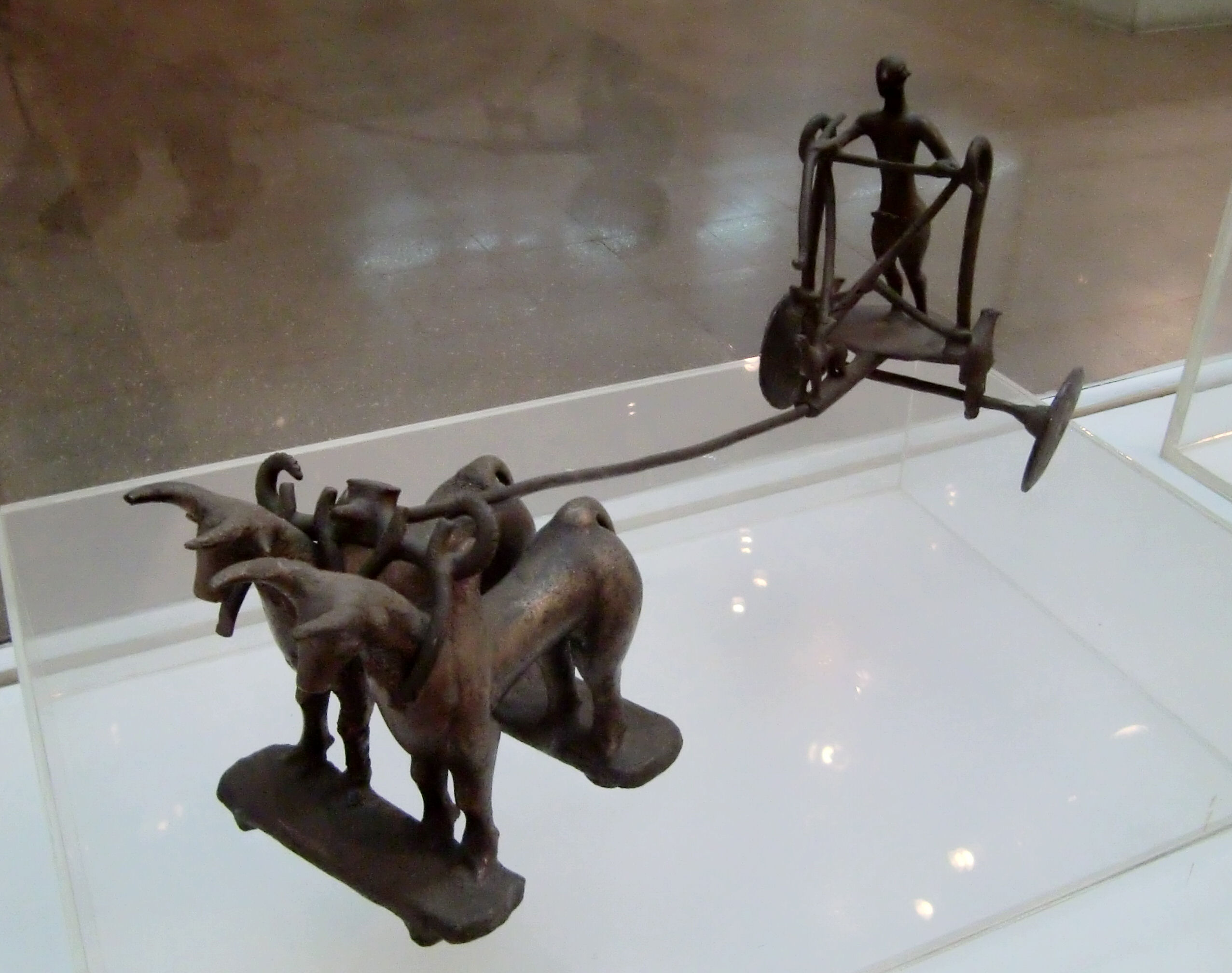 Coach driver 2000B.C. Harappa Indus